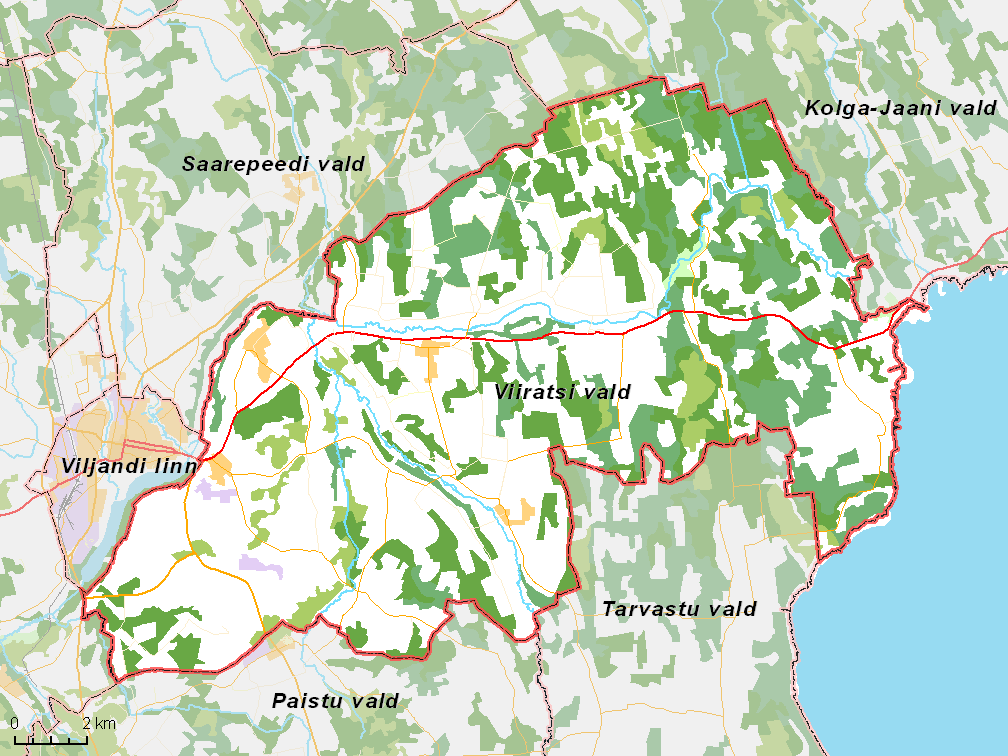 Map of municipality in Estonia